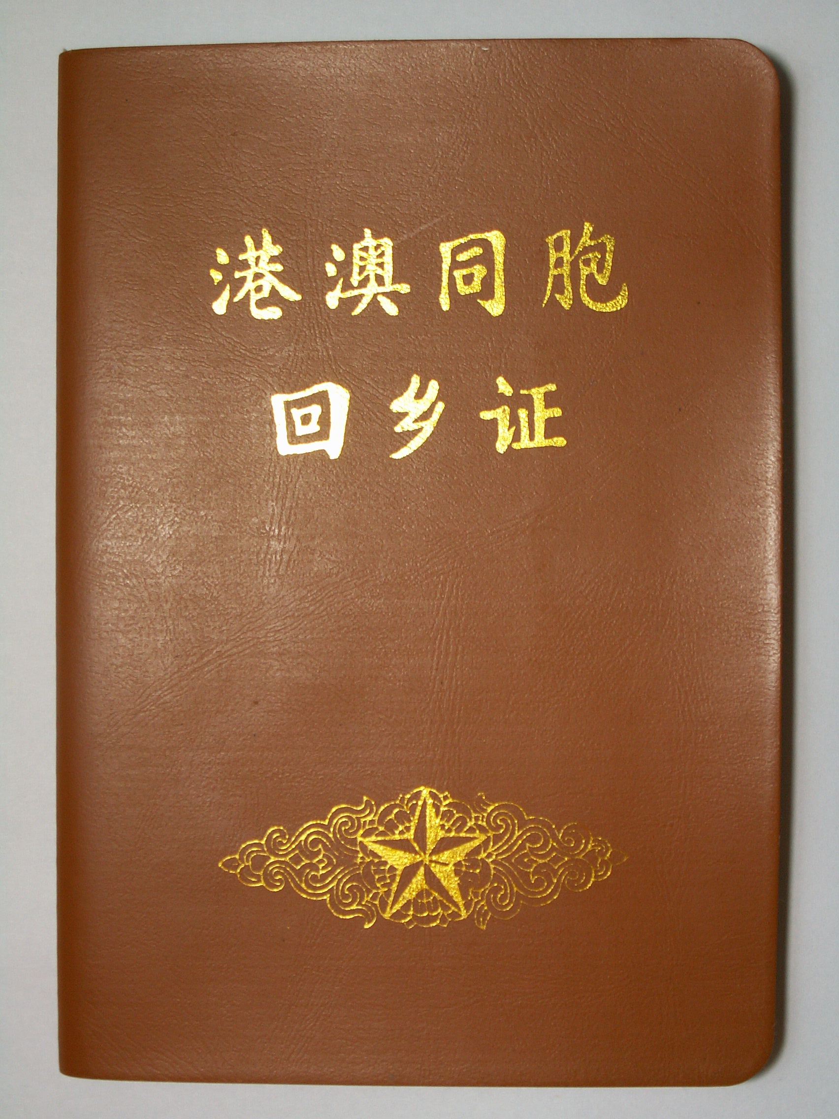 The cover of the People's Republic of China 'Home Return Permit for Compatriots of Hong Kong and Macao' (港澳同胞回鄉證) (Pre-1999) for Hong Kong and Macau residents. The permit was renamed 'Travel Permit to the Mainland [People's Republic of China] for Residents of Hong Kong and Macao' in 1999.